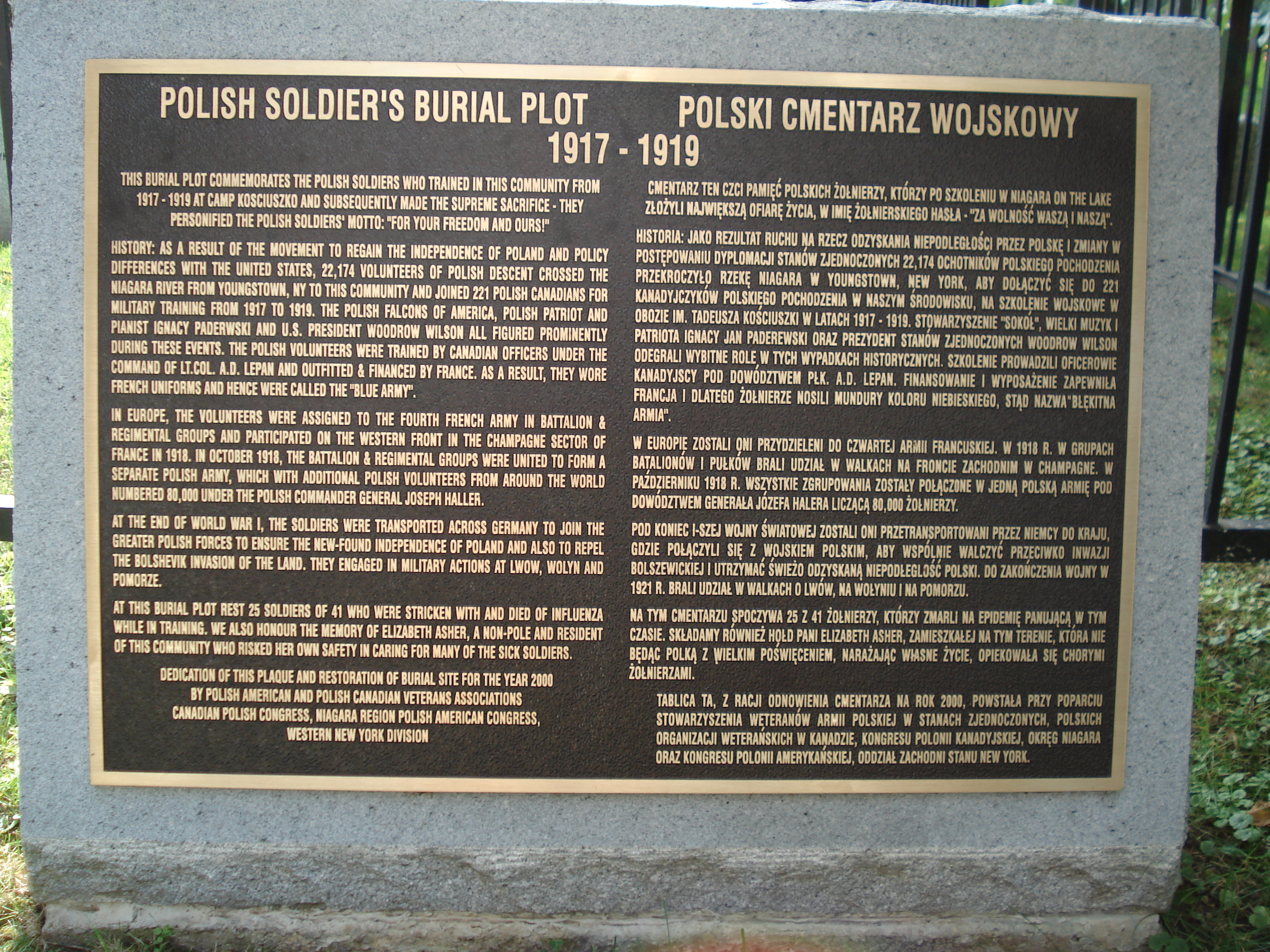 Polish military cemetery in Niagara-on-the-Lake, Ontario. Photo taken on October 9, 2006.